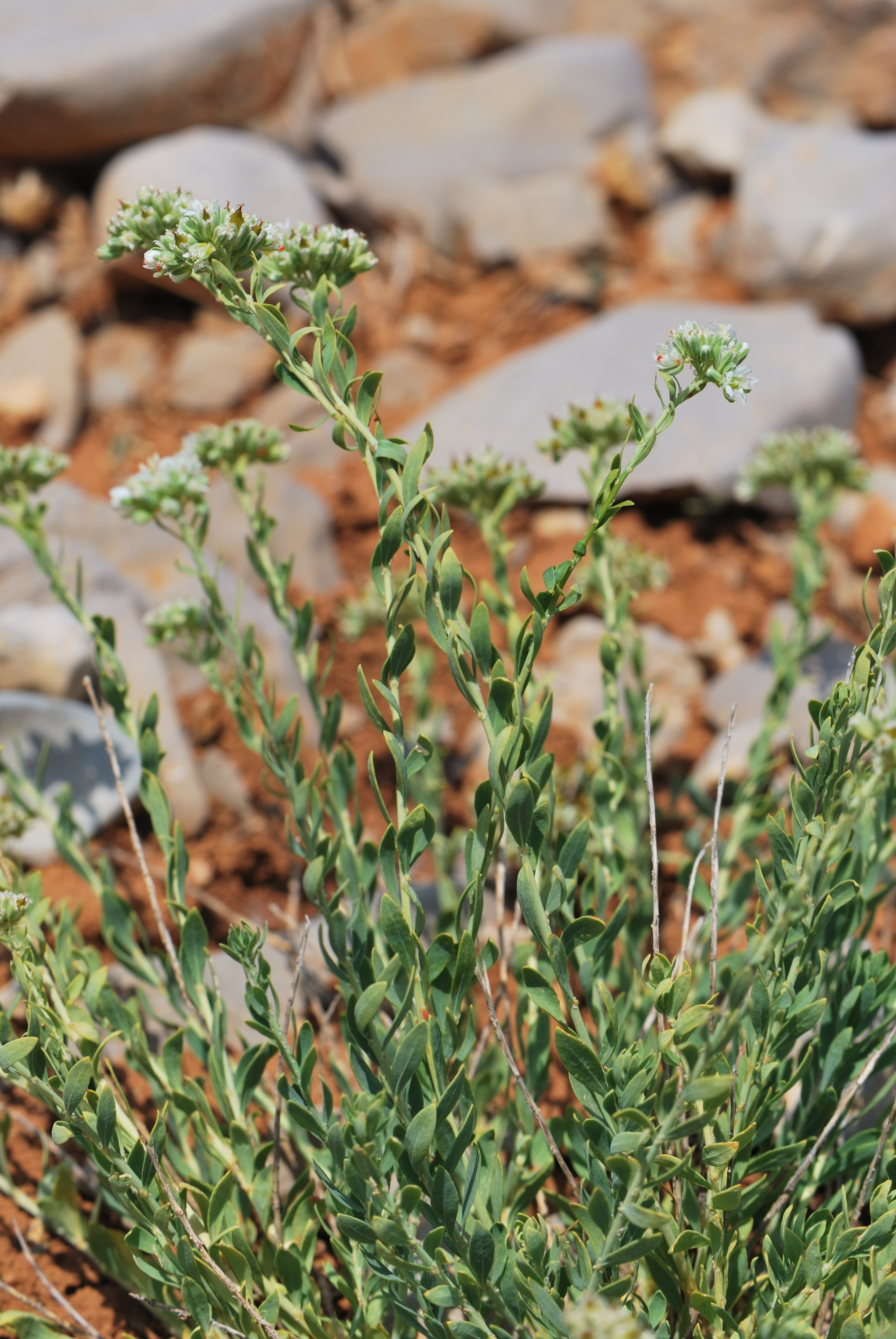 Telephium imperati L., Mount Hermon, Israel/Syria, July 9, 2011.